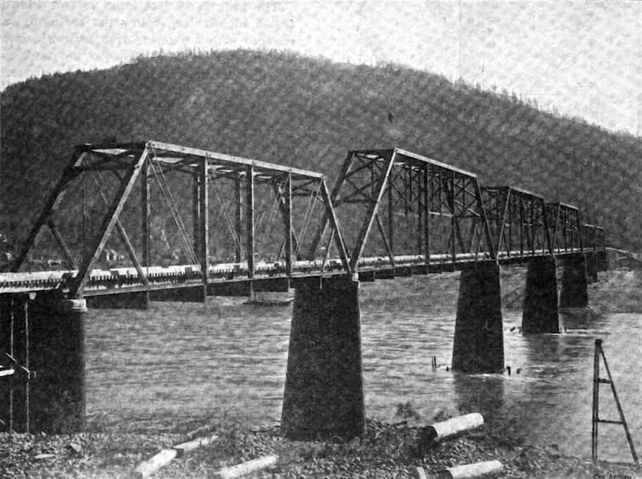 Northport Bridge of the Columbia & Red Mountain Railway across the Columbia River at Northport, Washington.